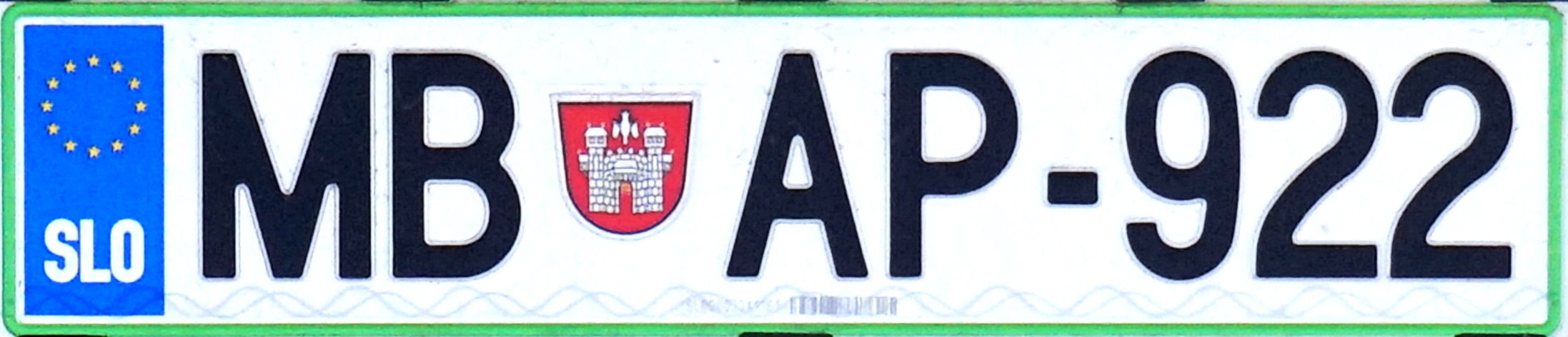 Slovenian license plate with the sticker of Maribor administrative unit